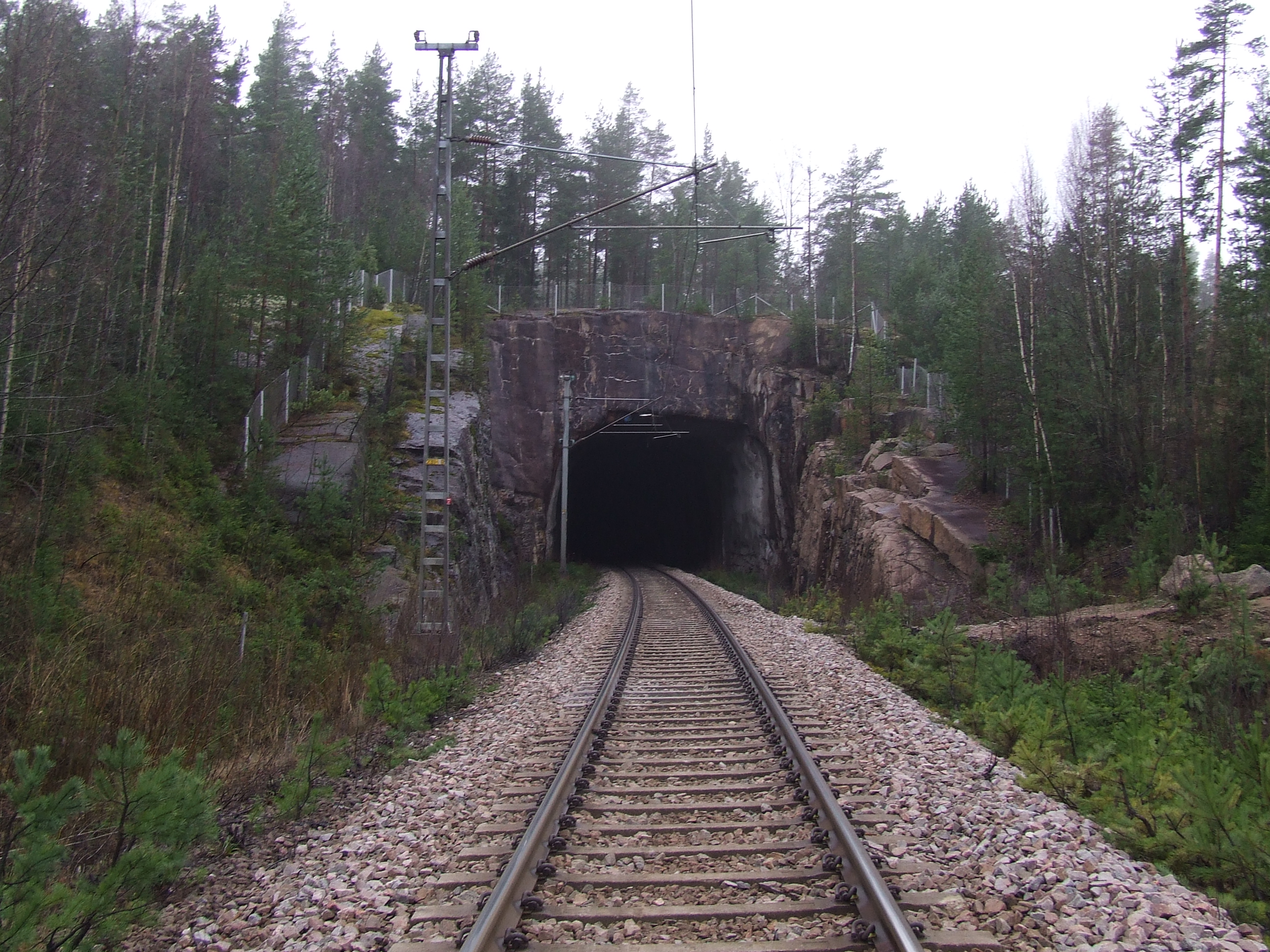 Mouth of the Suurvuori rail tunnel in Hamina, Finland.